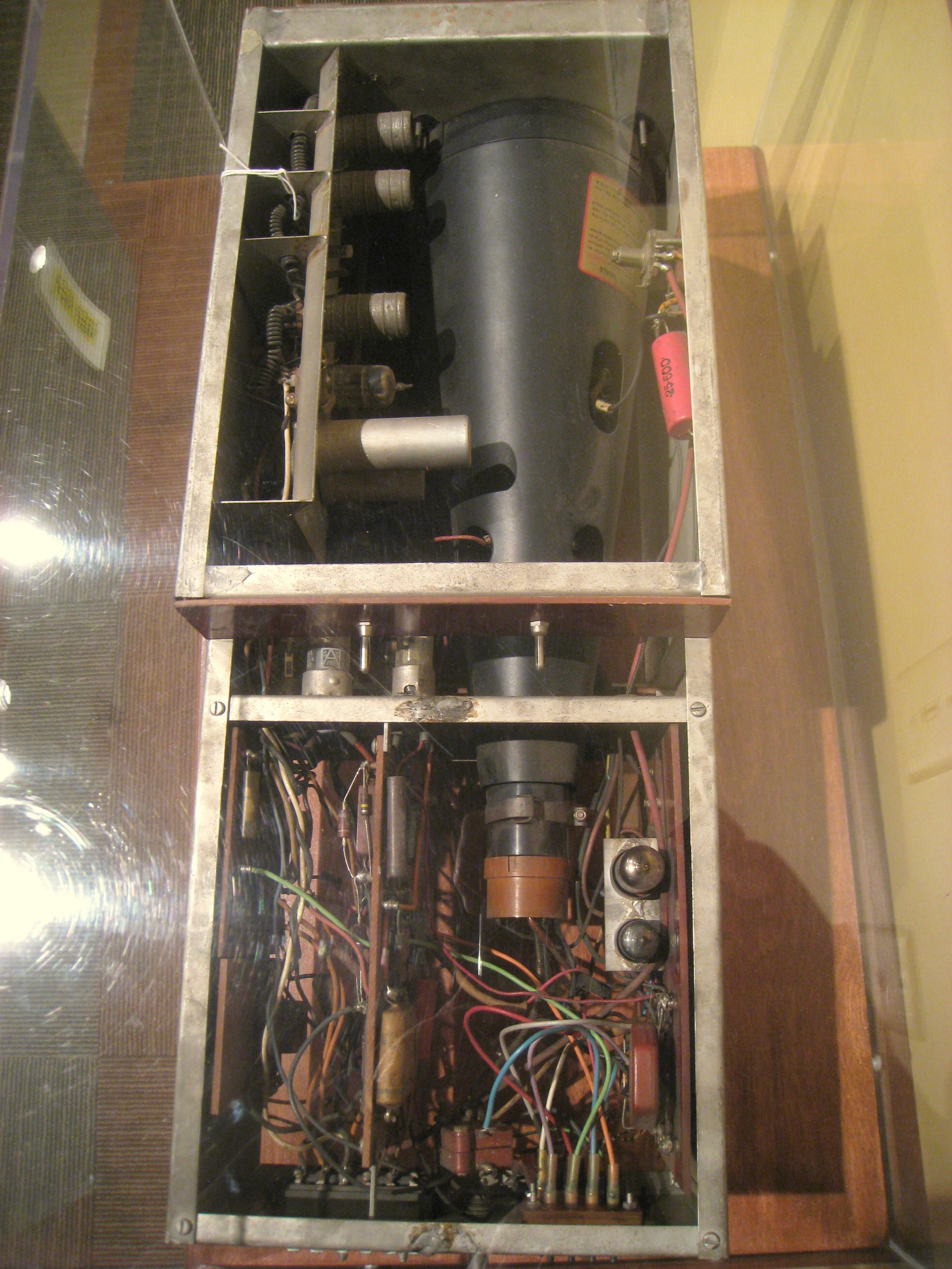 Electrostatic memory tube, from the Standards Western Automatic Computer (SWAC, 1949), in Museum of Science, Boston, Massachusetts, USA. Note that there was no prohibition against photography in the museum.